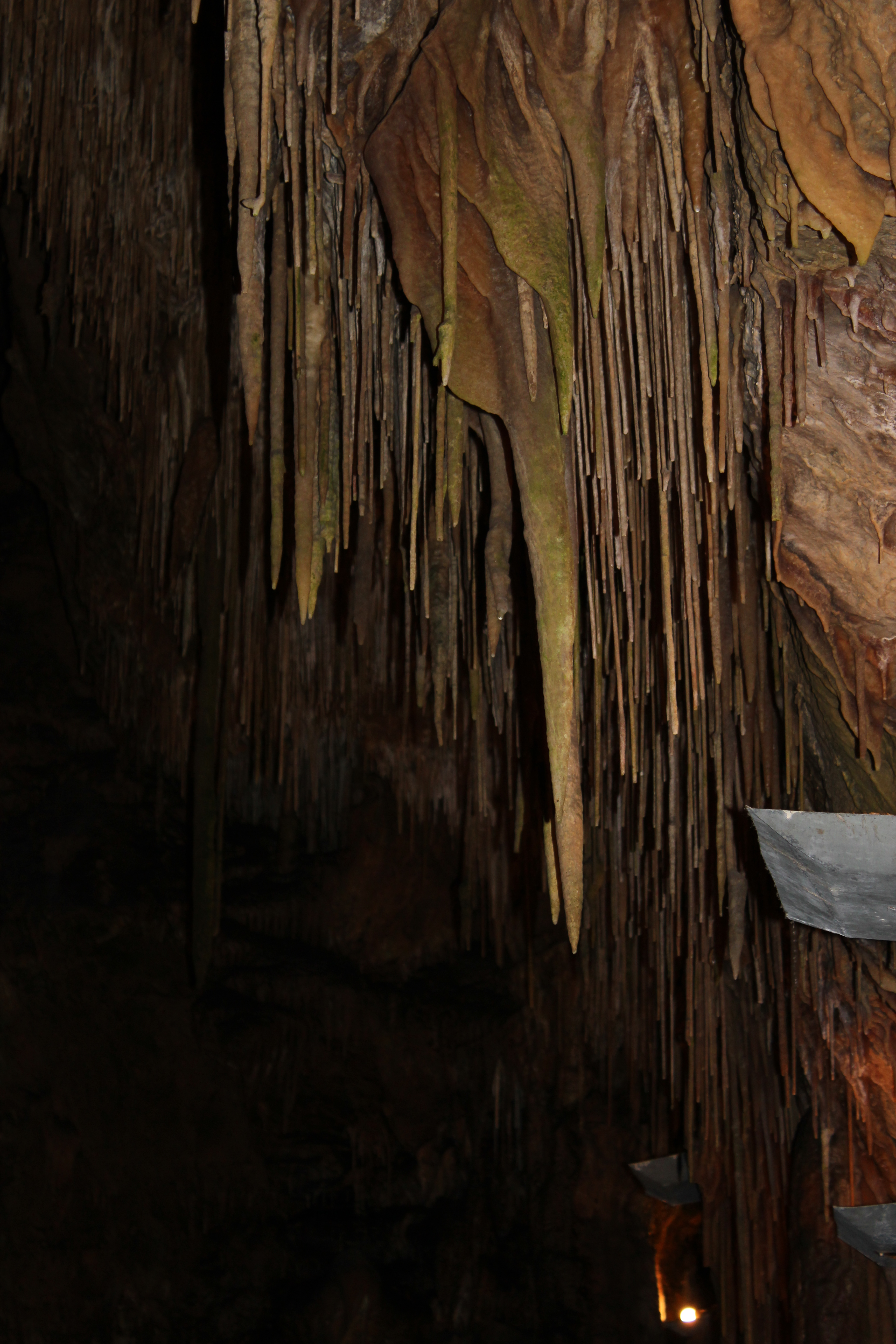 Picture taken inside Smoke Hole Caverns